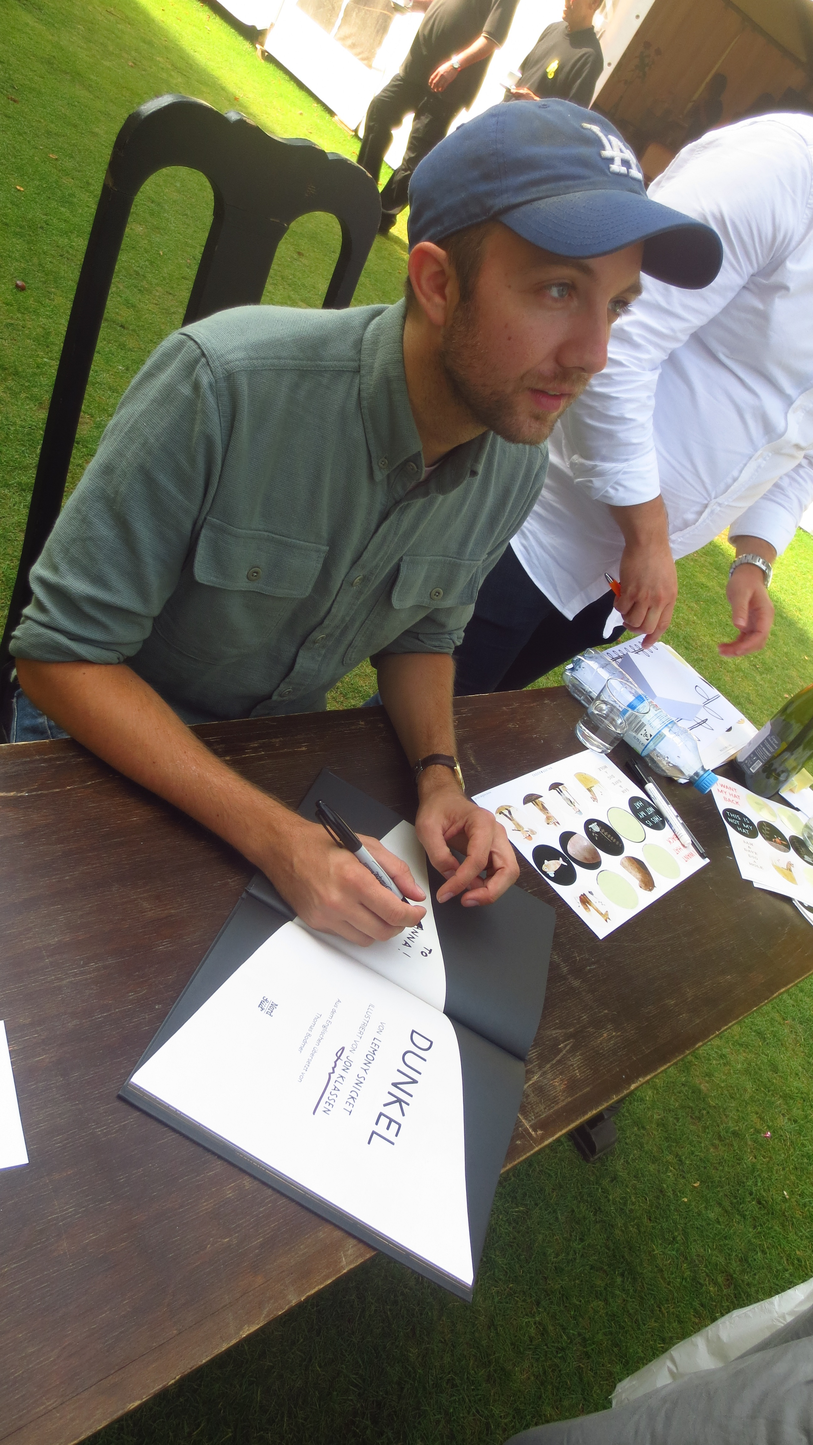 Jon Klassen in the festival garden of the Haus der Berliner Festspiele during his participation in the 14th international literature festival berlin on September 15, 2014